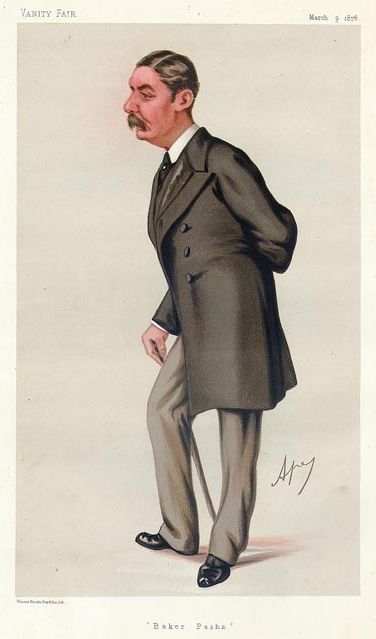 Caricature of Lieutenant-General Valentine Baker. Caption read "Baker Pasha".